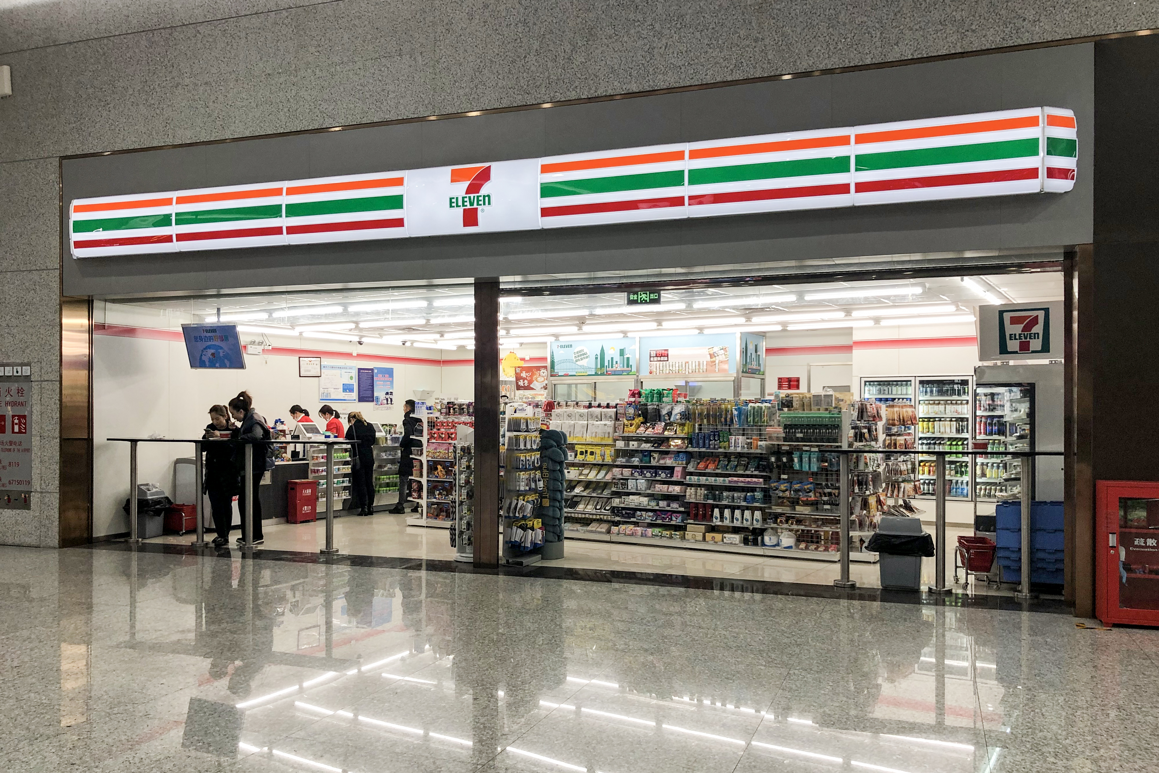 A 711 beckons...